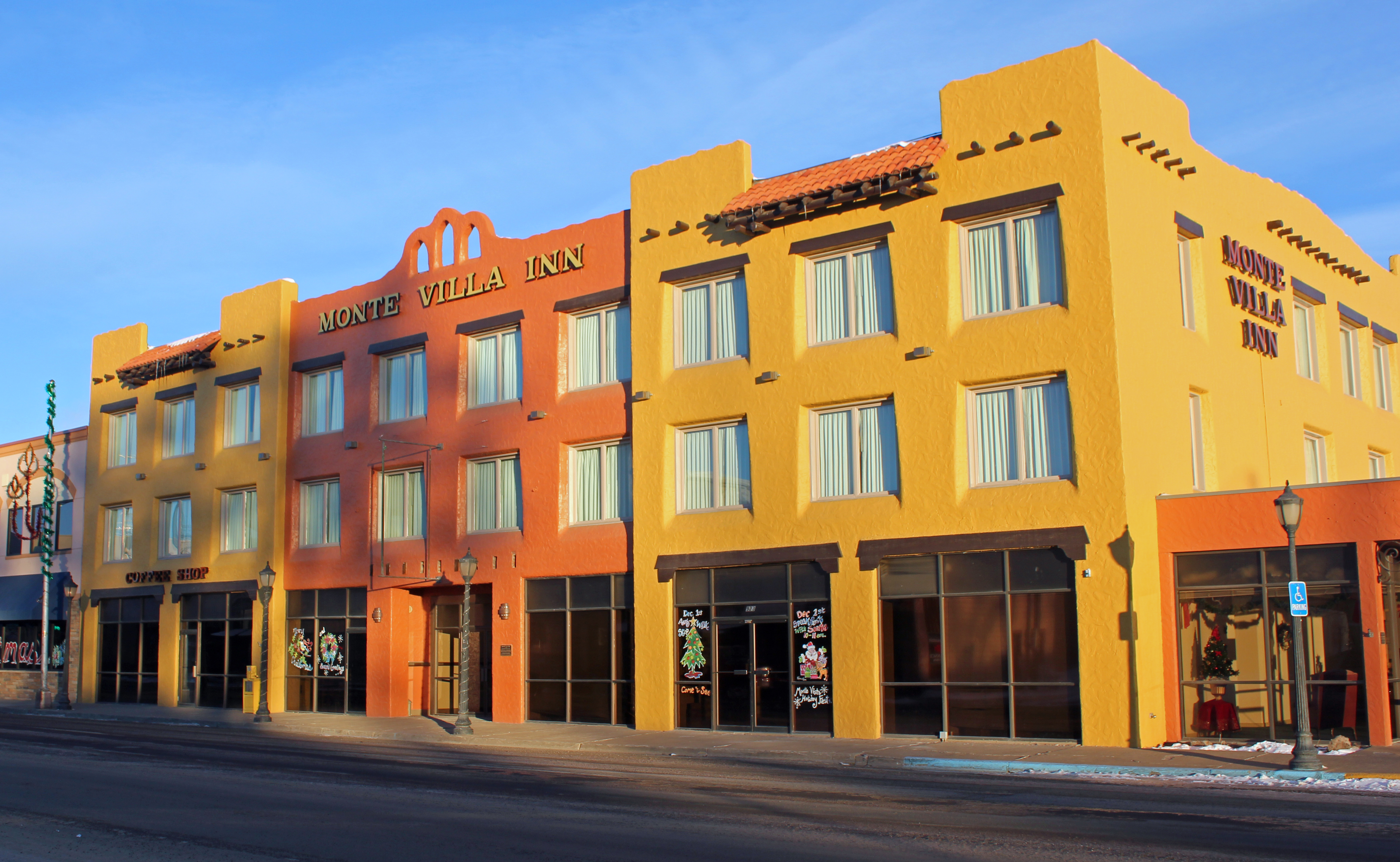 The El Monte Hotel, located at 921 1st Avenue in Monte Vista, Colorado. The property is listed on the National Register of Historic Places. The contemporary name is the Monte Villa Inn.